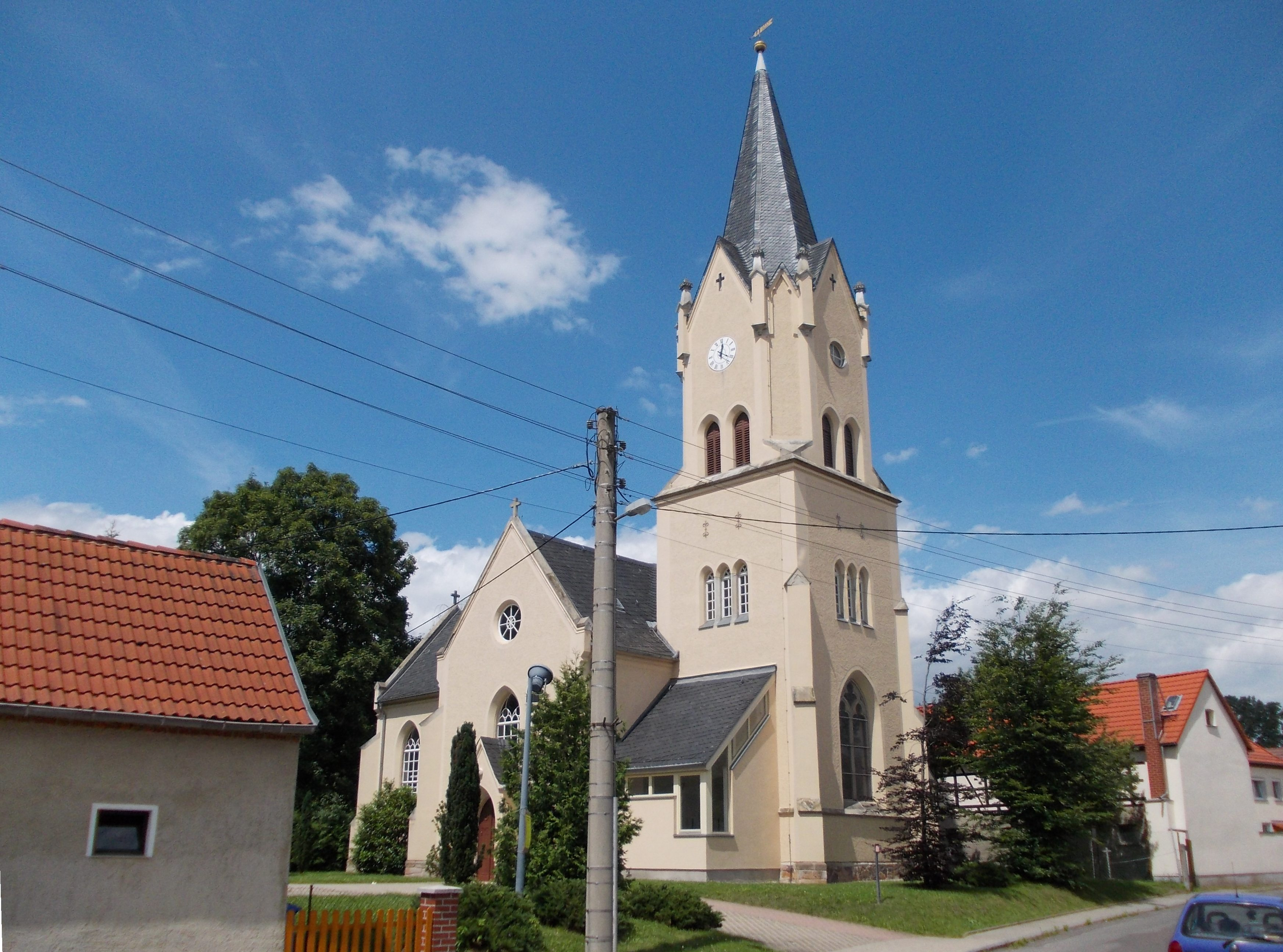 Prössdorf church (Lucka, district of Altenburger Land, Thuringia)